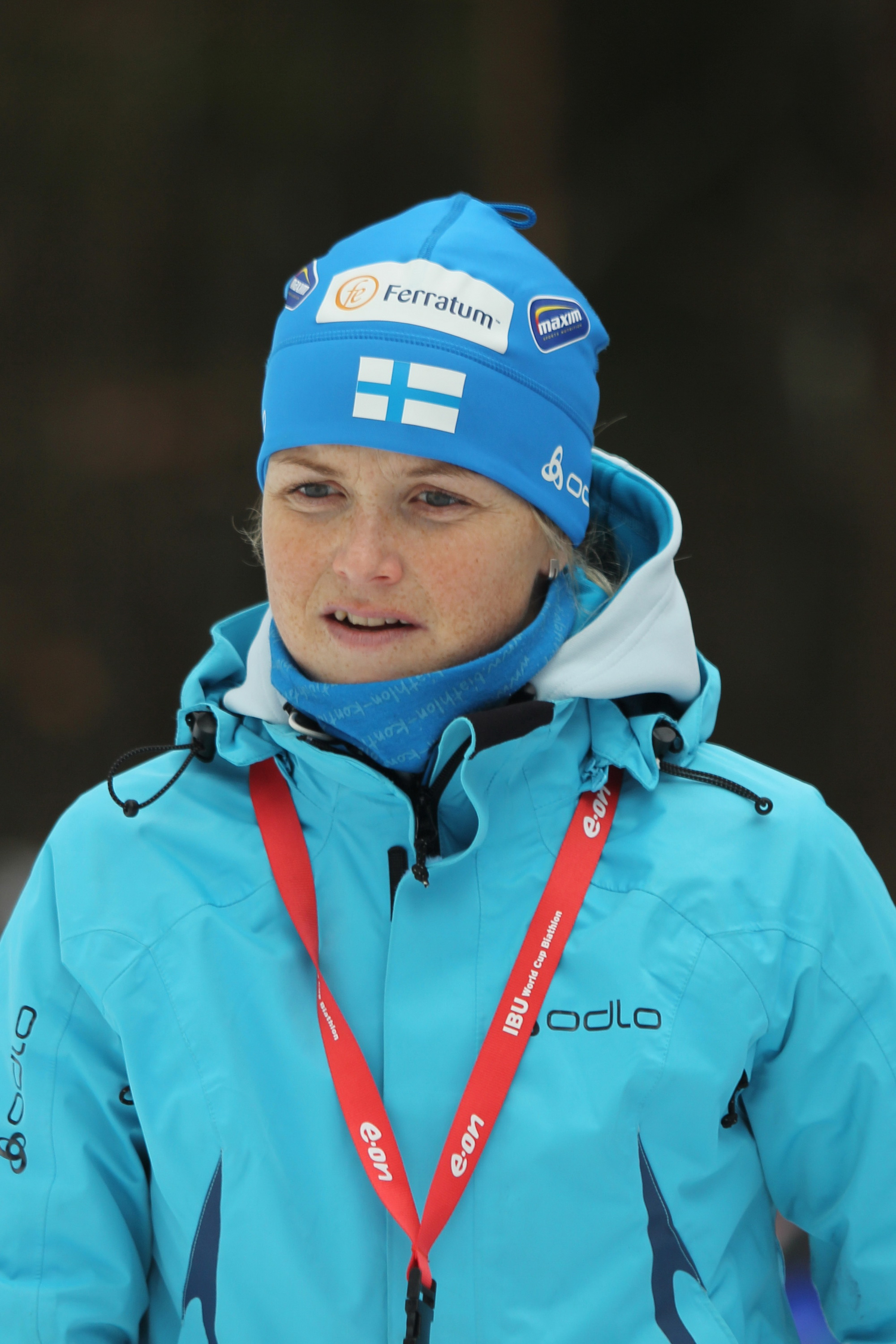 Sanna-Leena Perunka at Weltcup 2011 in Ruhpolding